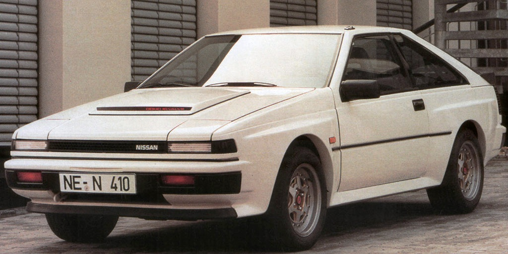 Nissan Silvia Grand Prix: A limited-edition (~50 units sold worldwide) trim of the Nissan S12 chassis, with integrated widebody fenders and quarter sections, side skirts, and special edition wheels.